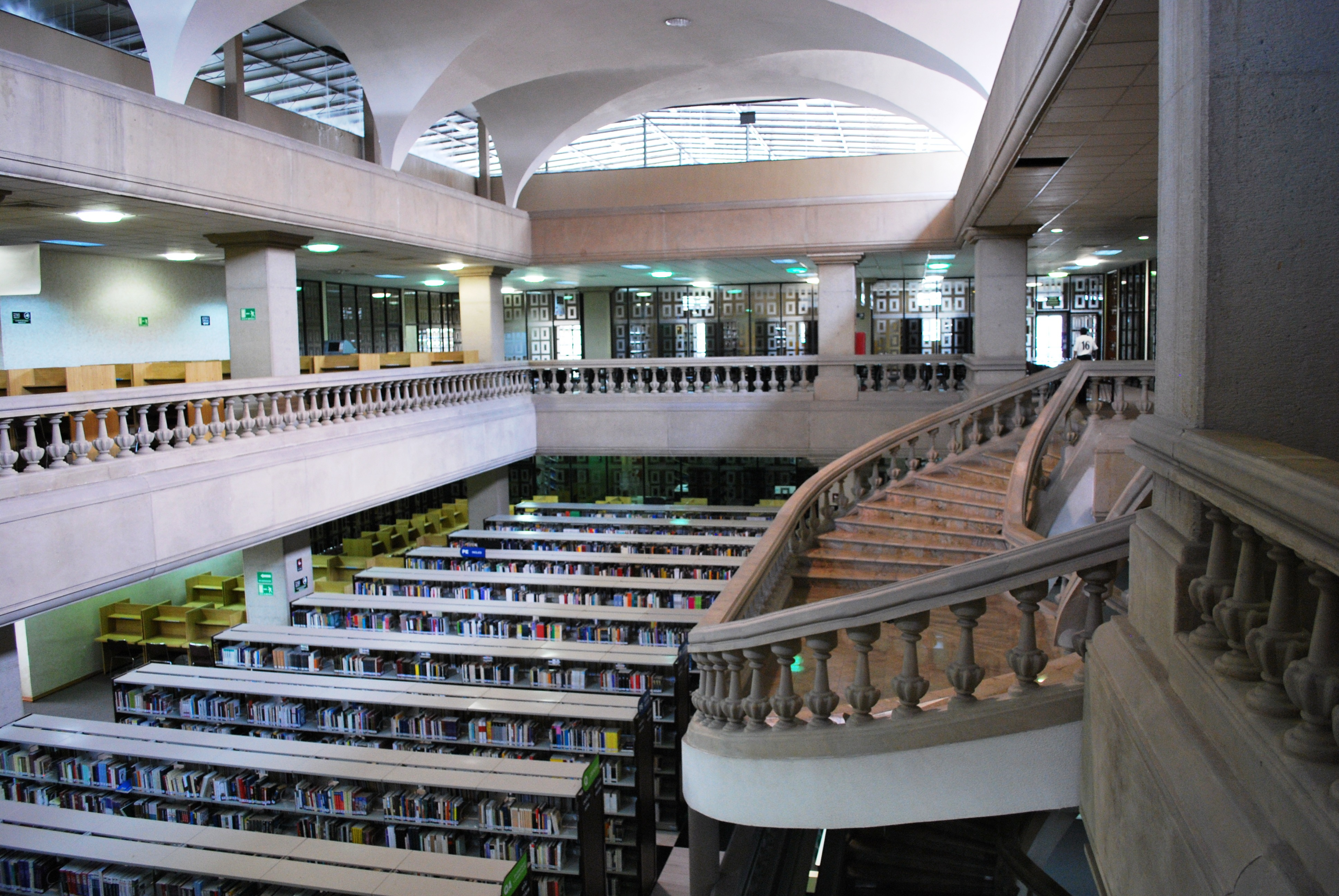 View of 3rd, and 2nd floors of the library at ITESM-CCM.